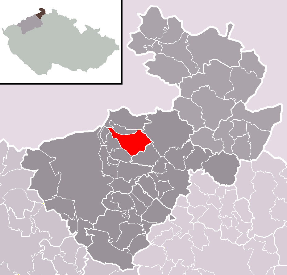 Location of Růžová municipality within Děčín District and administrative area of Děčín as a Municipality with Extended Competence.